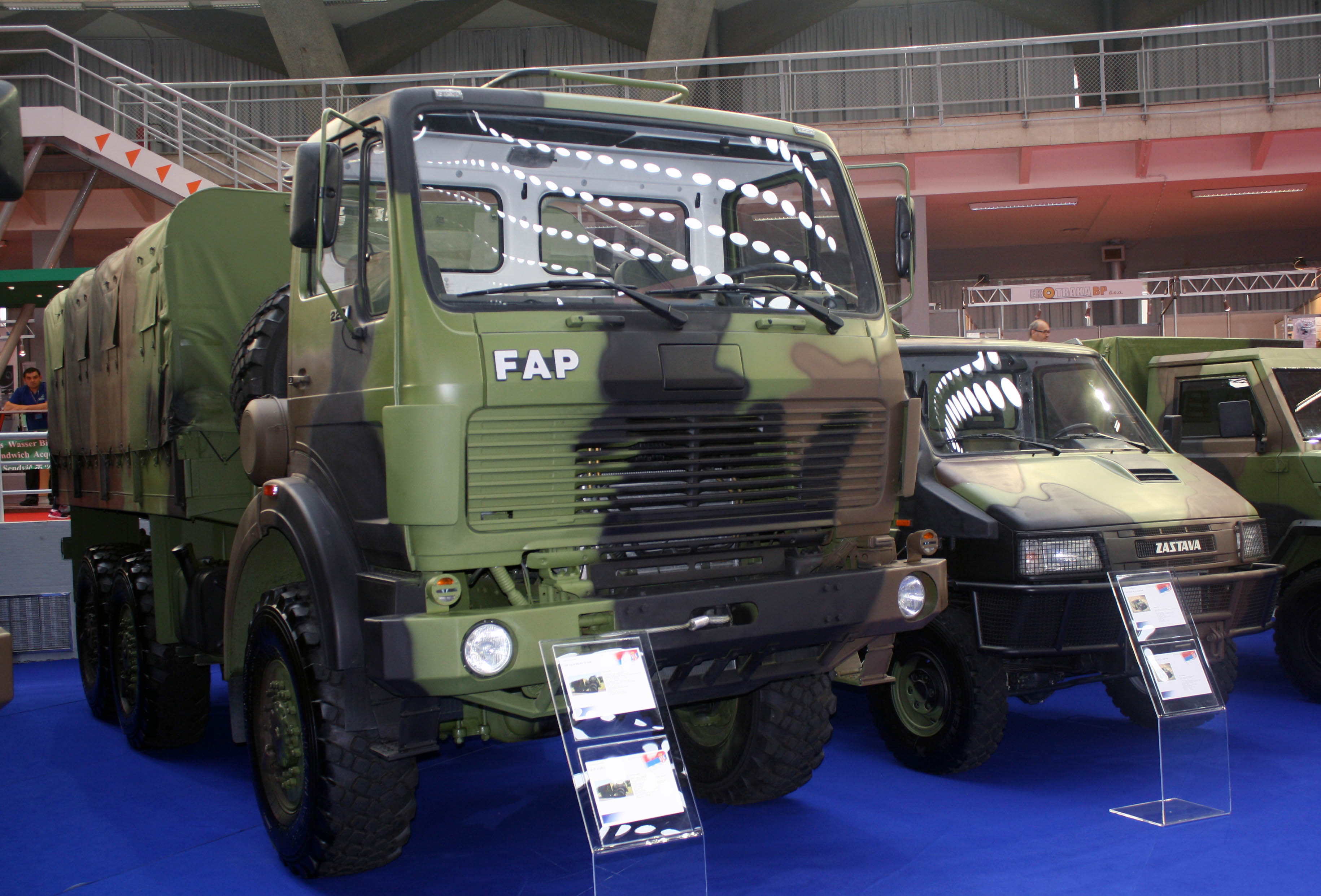 New FAP 2228 6x6 military truck of Serbian Army on display at "Partner 2011" military fair. Next to it is Zastava New Turbo Rival.